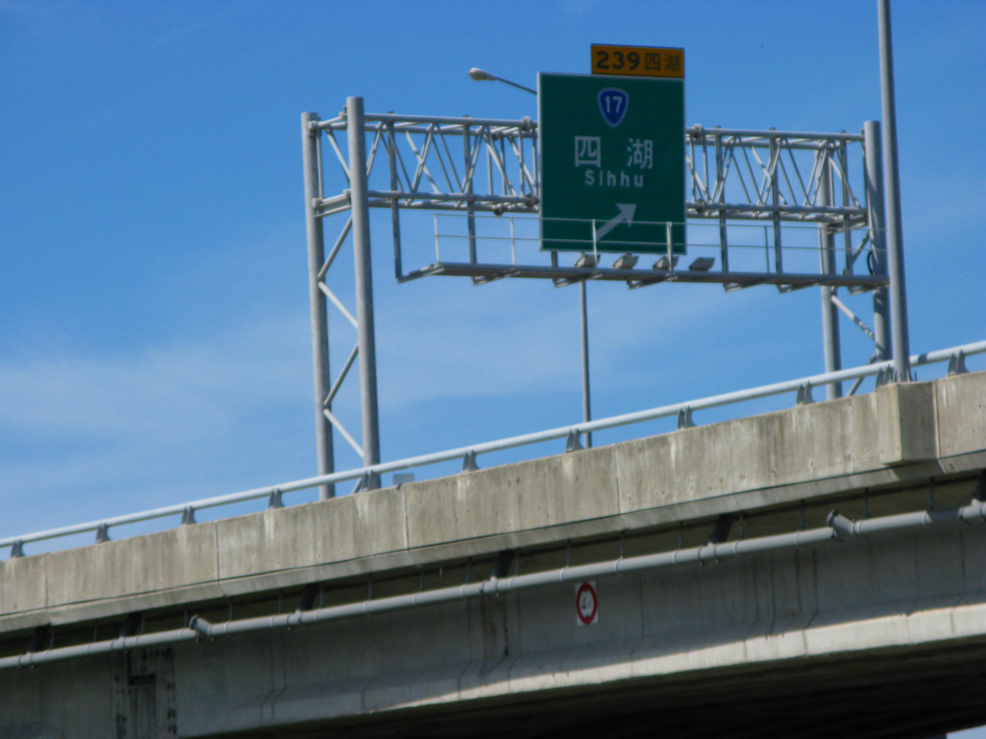 Taiwan 17th path sign